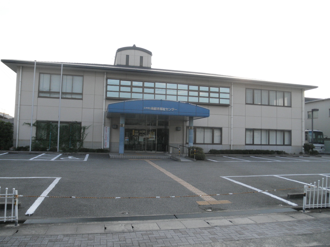 Miki municipal institution senior citizen welfare center